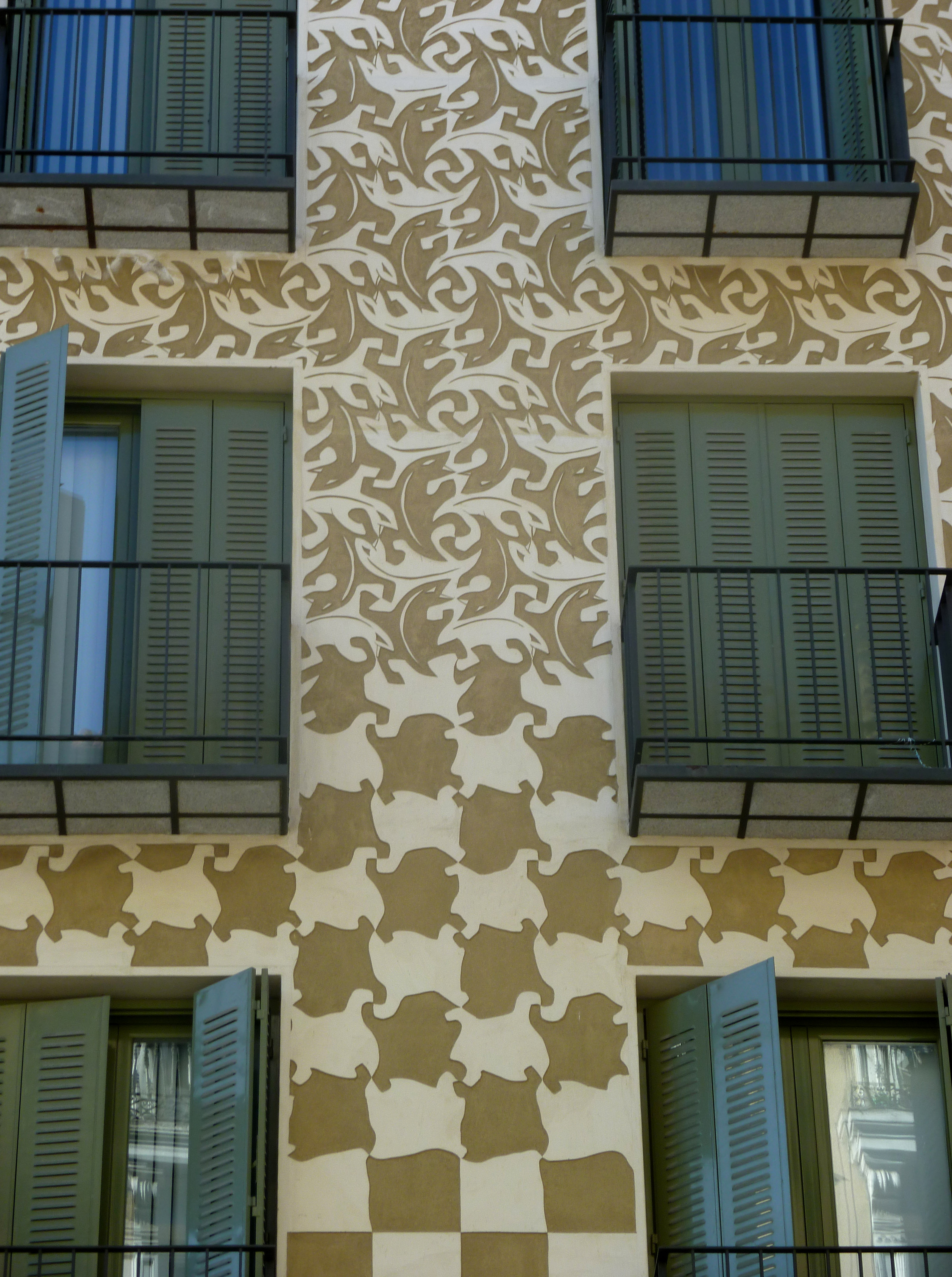 Façade of a building at 14 Calle del Conde de Romanones (street, Centro district) in Madrid (Spain), showing an Escher's design from Metamorphosis II.